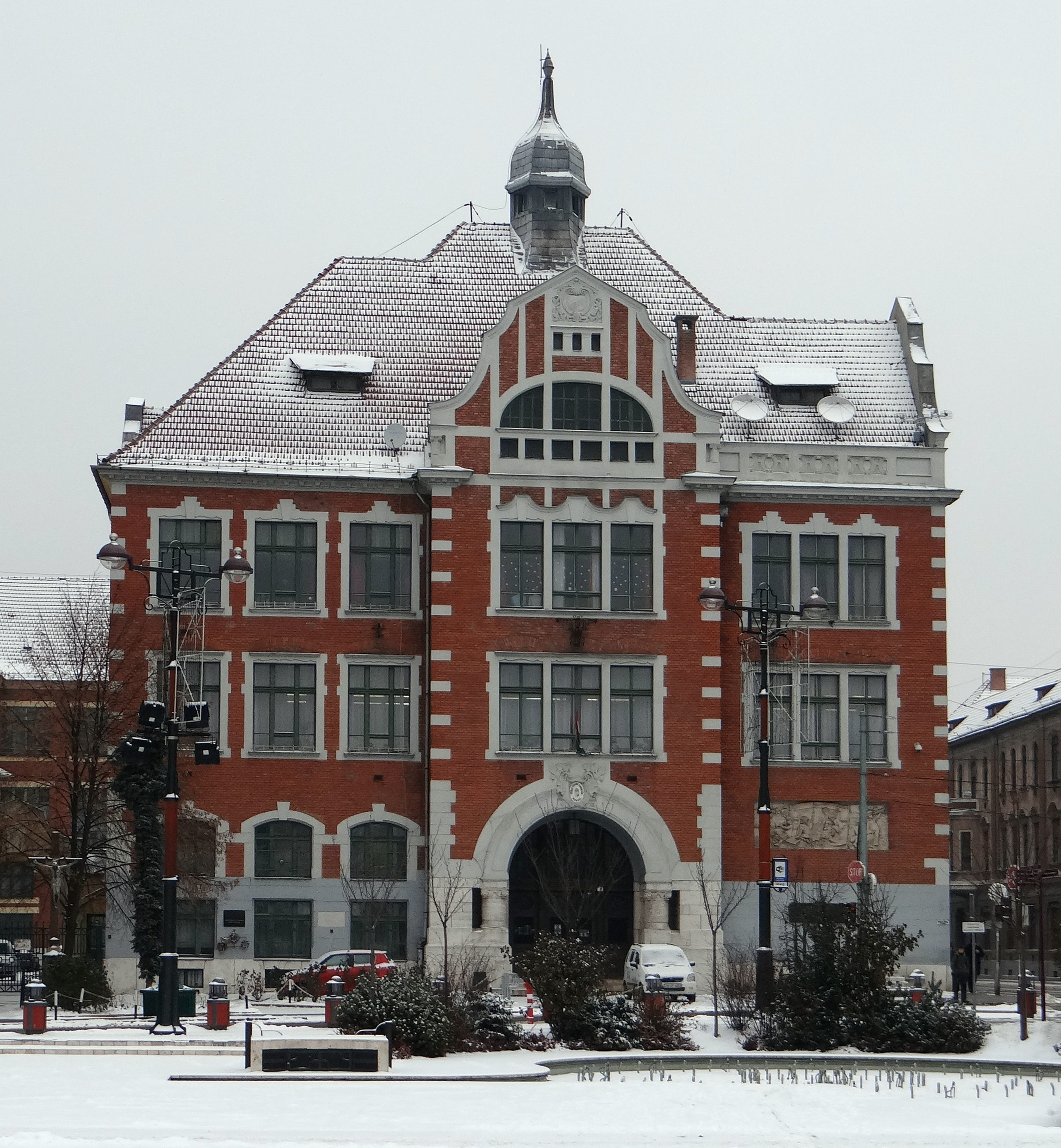 Ferenc Földes High School, Hősök tere, Miskolc, Hungary